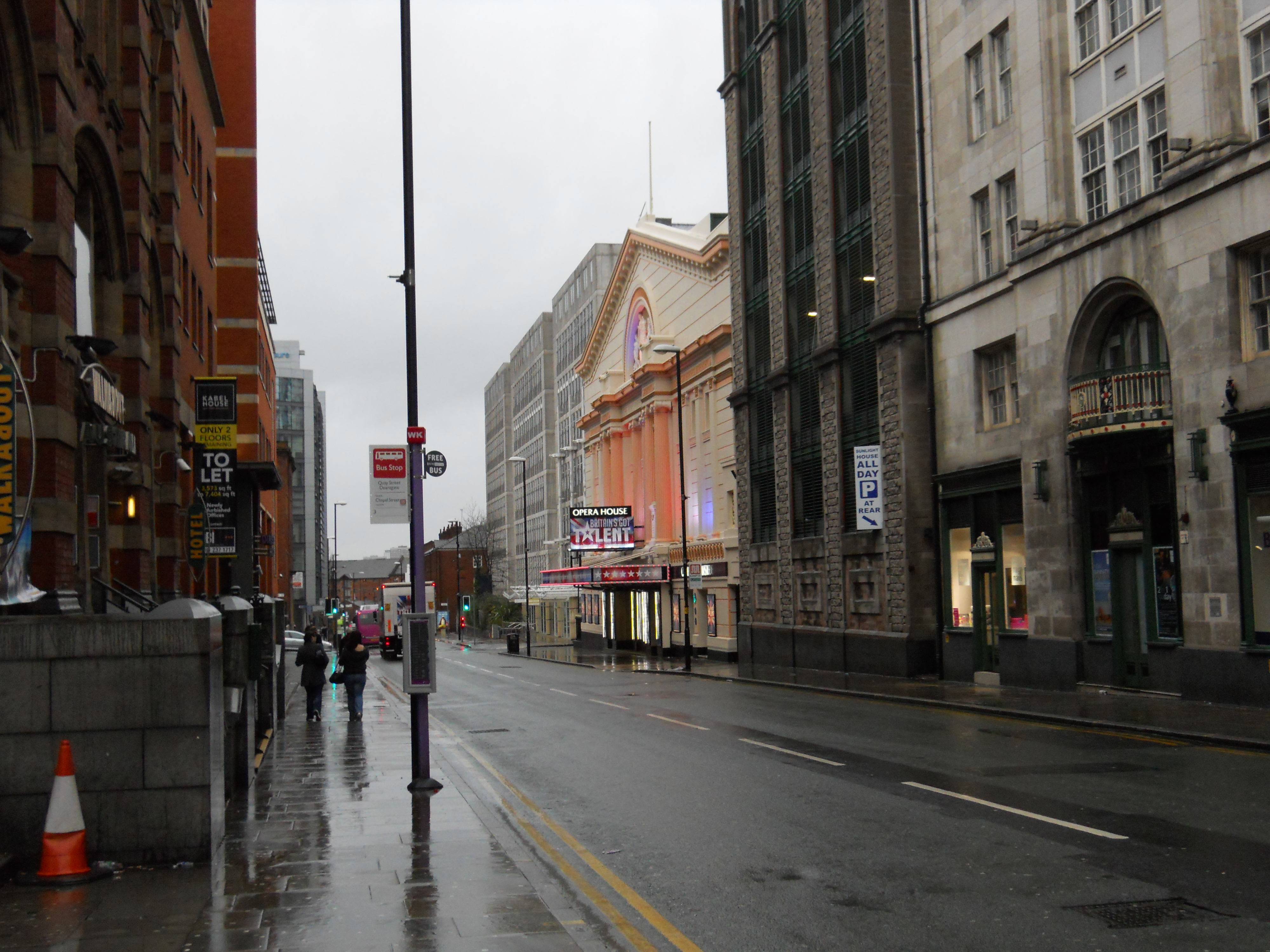 The Opera House is one of many places in the United Kingdom that's hosting this year's so-called talent show Britain's Got Talent